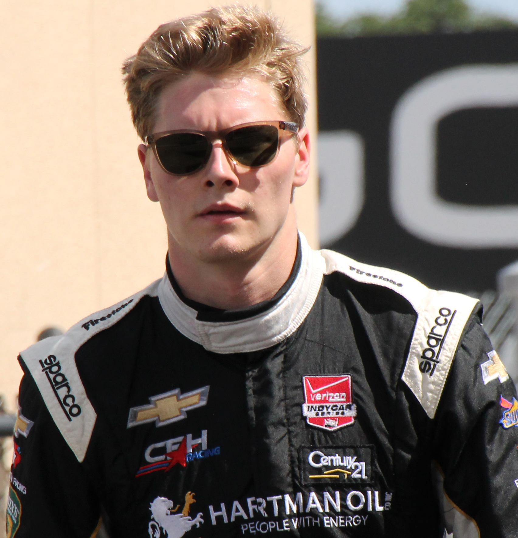 Josef Newgarden at the 2015 GoPro Grand Prix of Sonoma